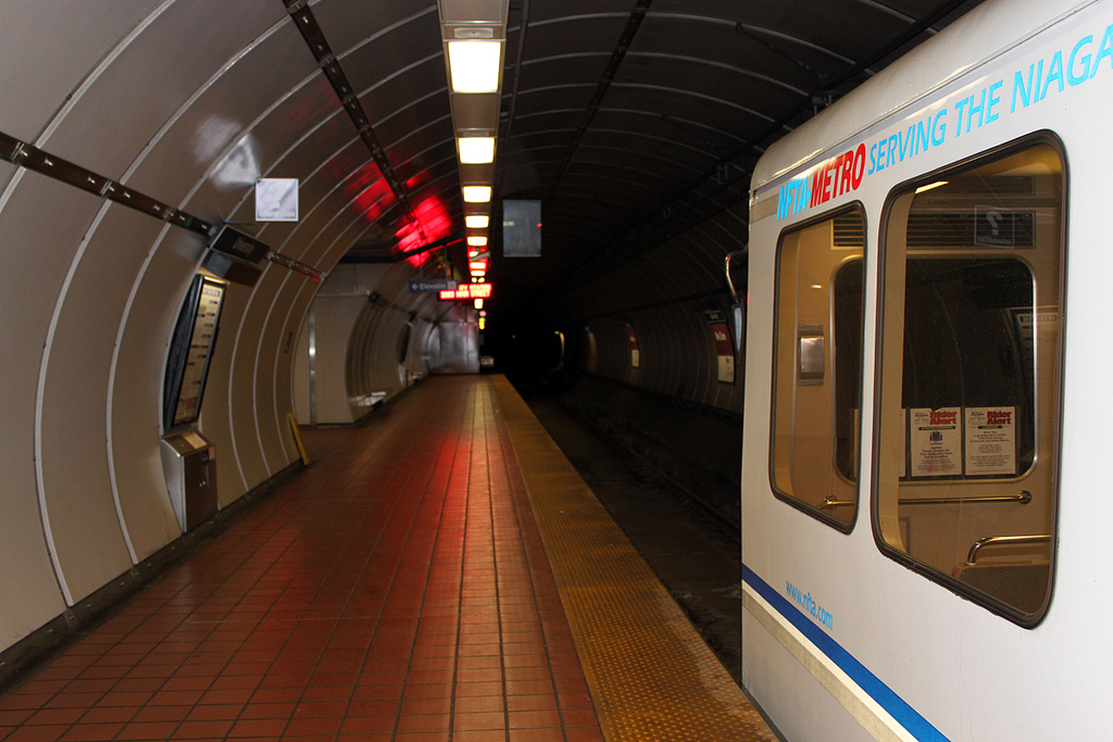 University station on the Metro Rail system in Buffalo, New York